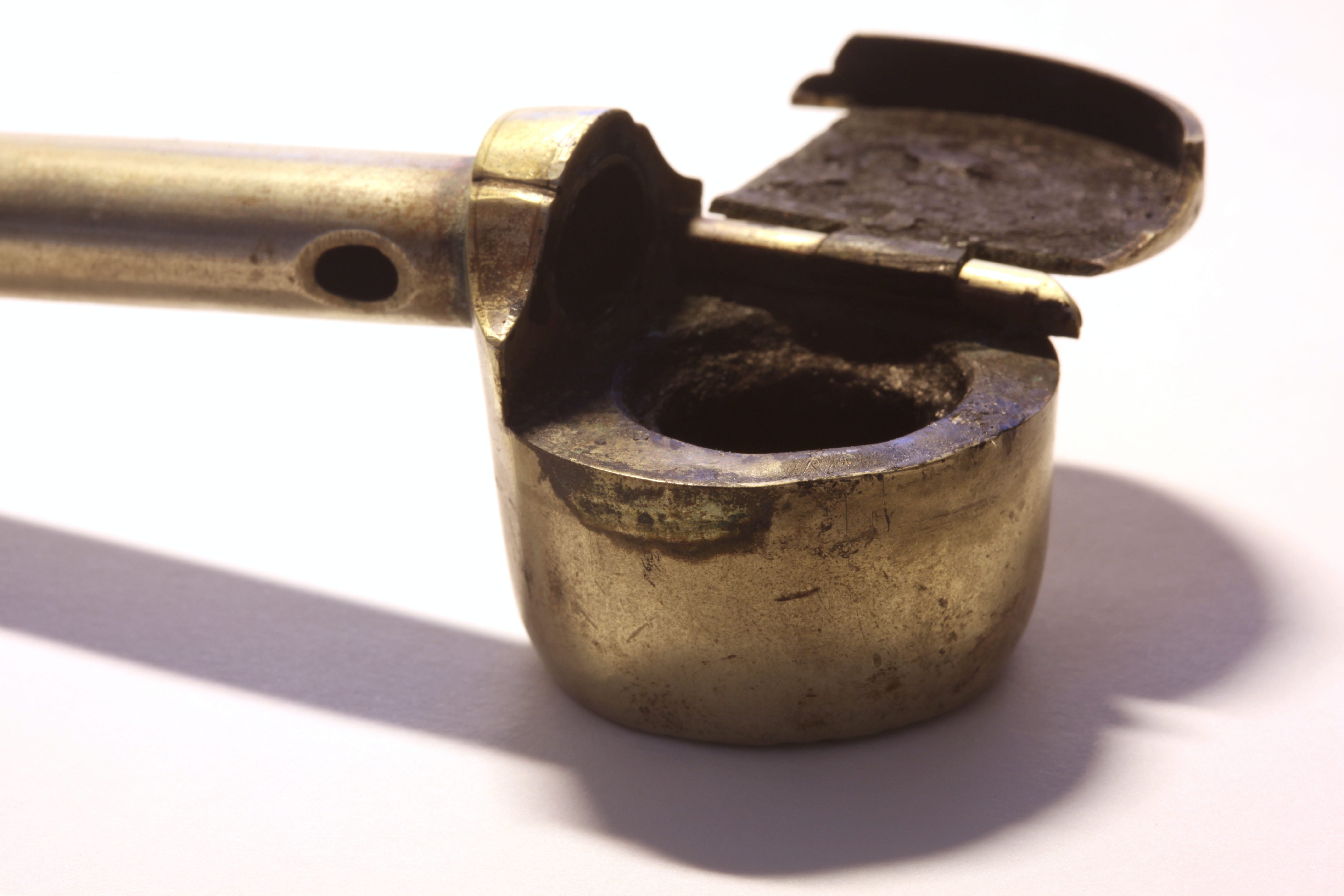 yatate